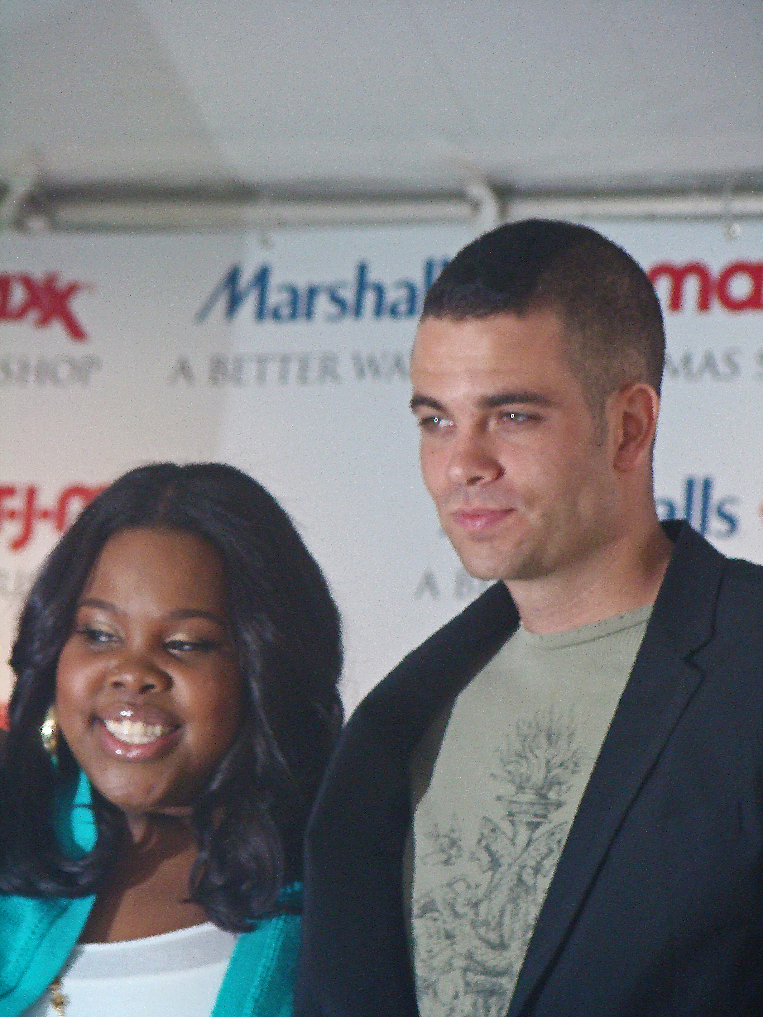 Glee cast-members Mark Salling (Puck), and Amber Riley (Mercedes) appeared in Bryant Park in conjunction with the Marine Corps Toys for Tots program.